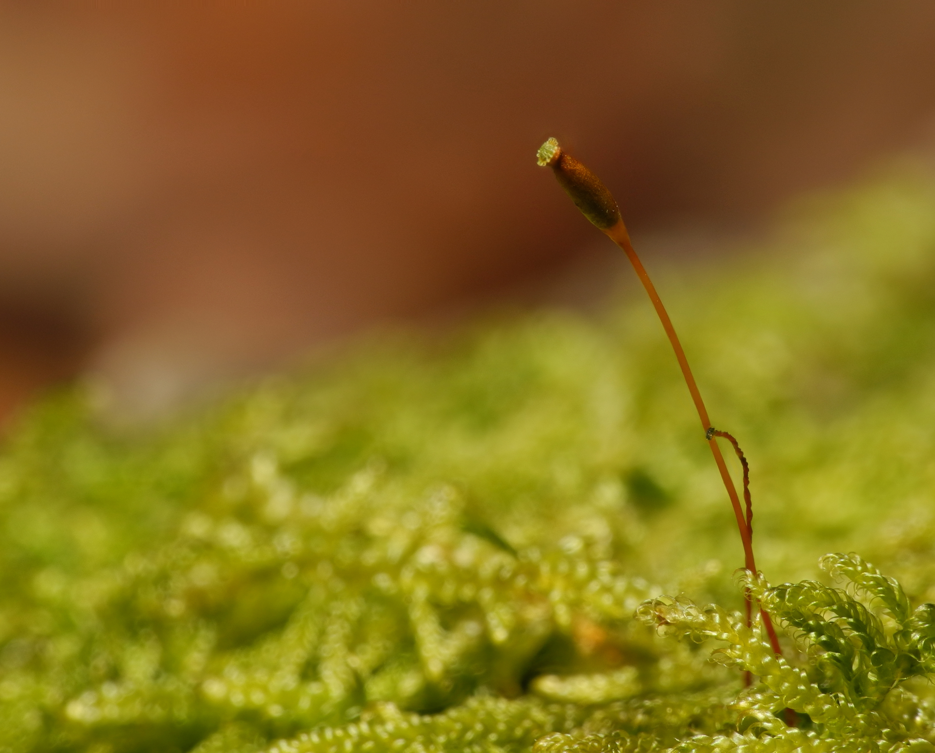 Focus stacking of 6 pictures (using Zerene Stacker).Sporange de mousse (Bryophyta sp.) (focus stacking). Image composée de 6 photos prises avec la bonnette Raynox DCR-250 et assemblées avec Zerene Stacker.